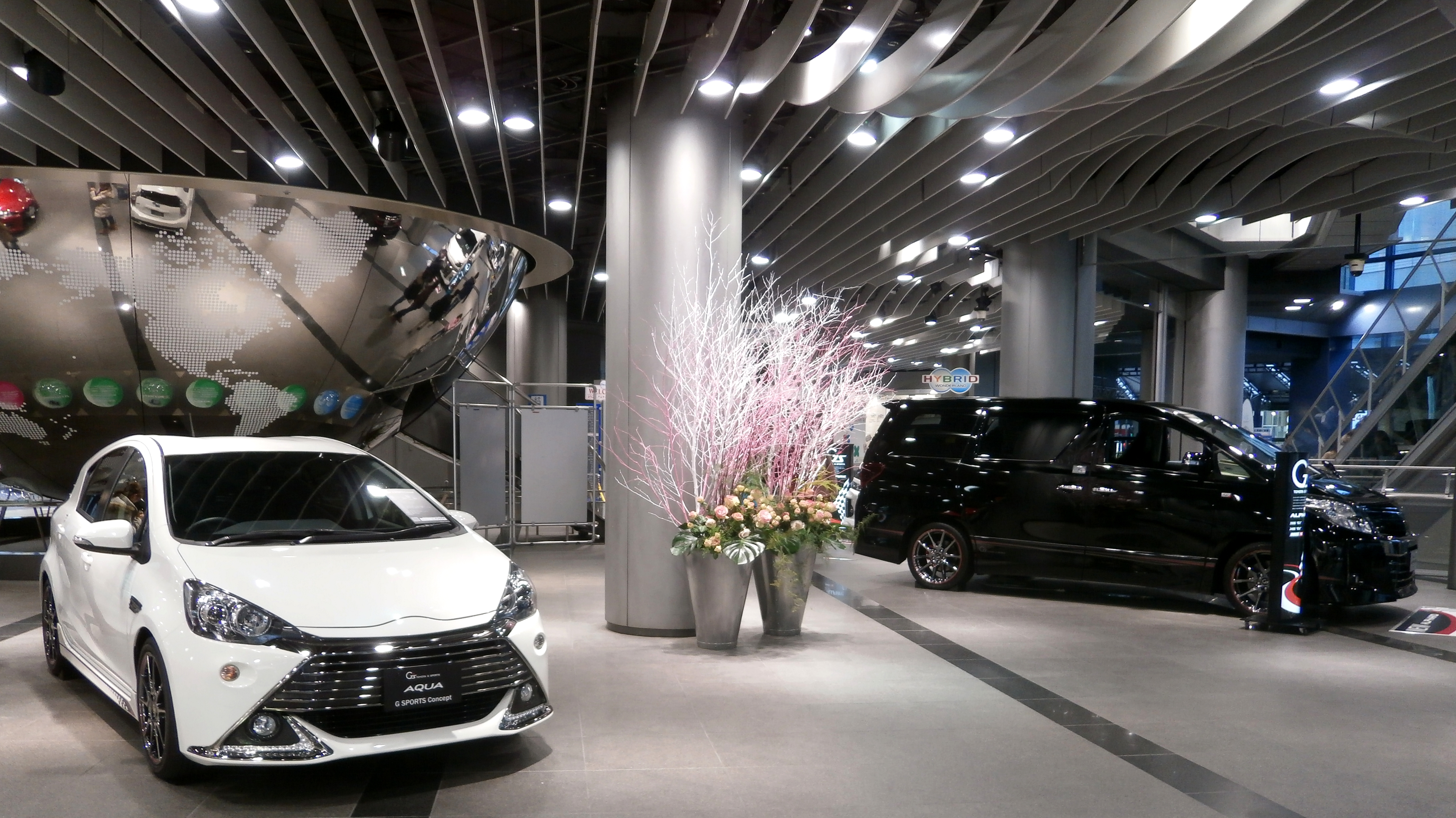 The 1st floor of AMLUX Tokyo, Ikebukuro, Tokyo.